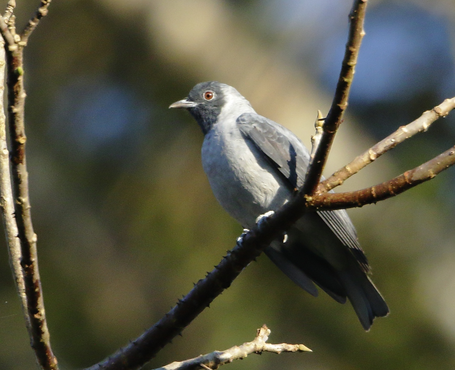 Black-faced cotinga at Rio Branco - Acre - Brazil